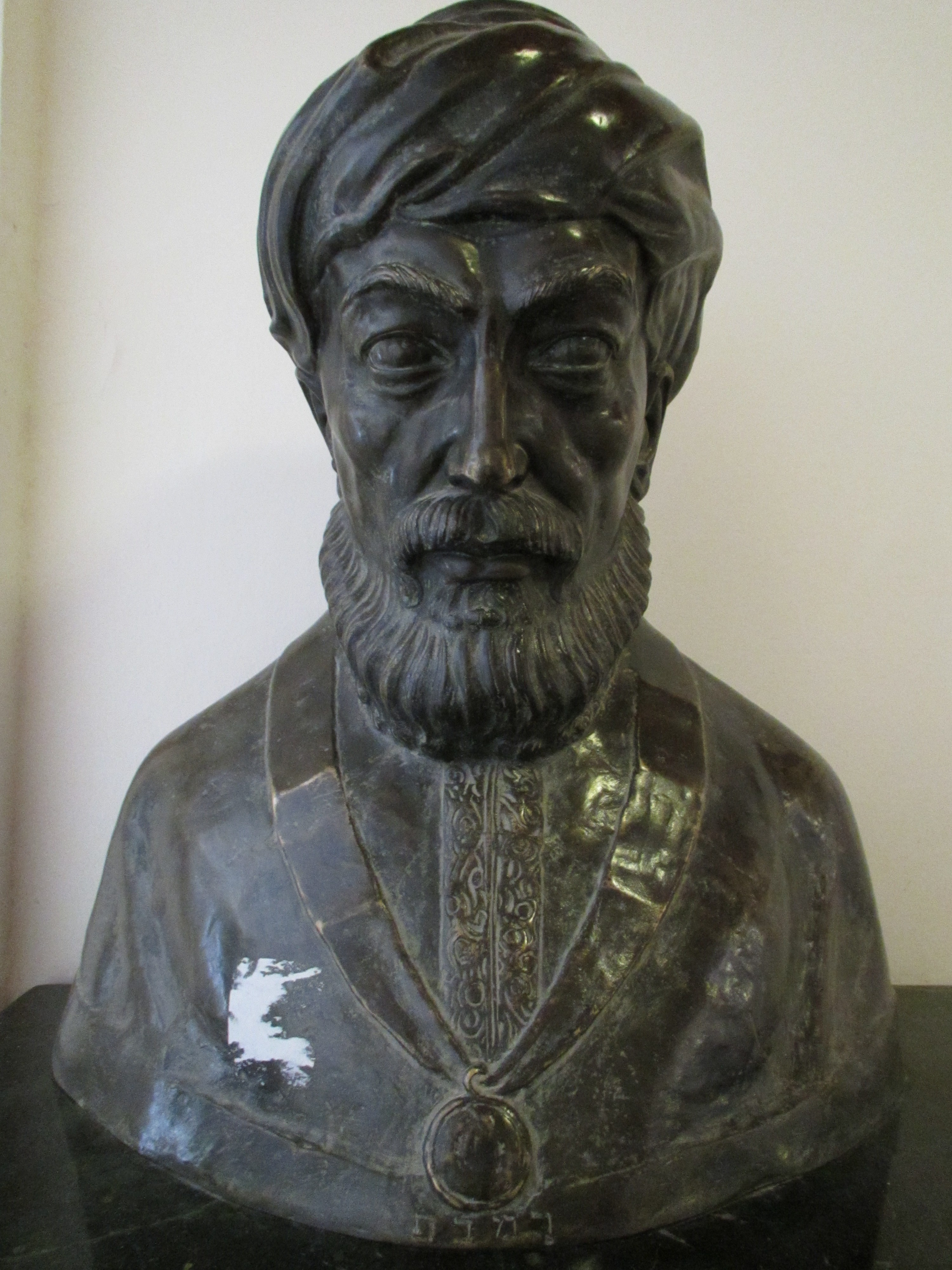 Abraham Ostrzega's Protome of Maimonides